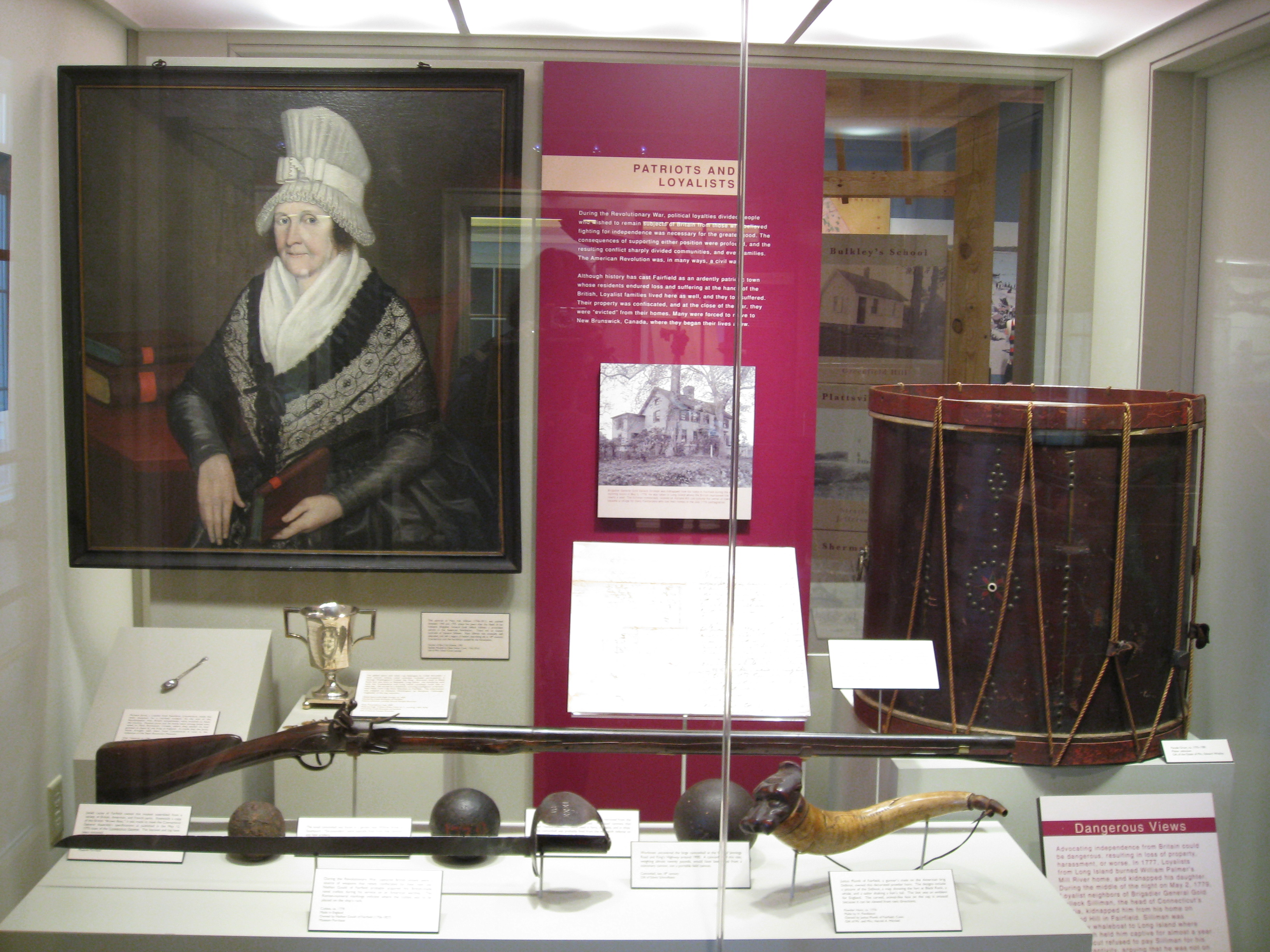 Patriots and Loyalist display at Fairfield Museum & History Center, Fairfield, CT